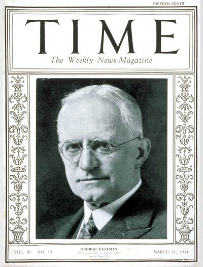 Cover of TIME Magazine Featuring George Eastman, 31 Mar 1924